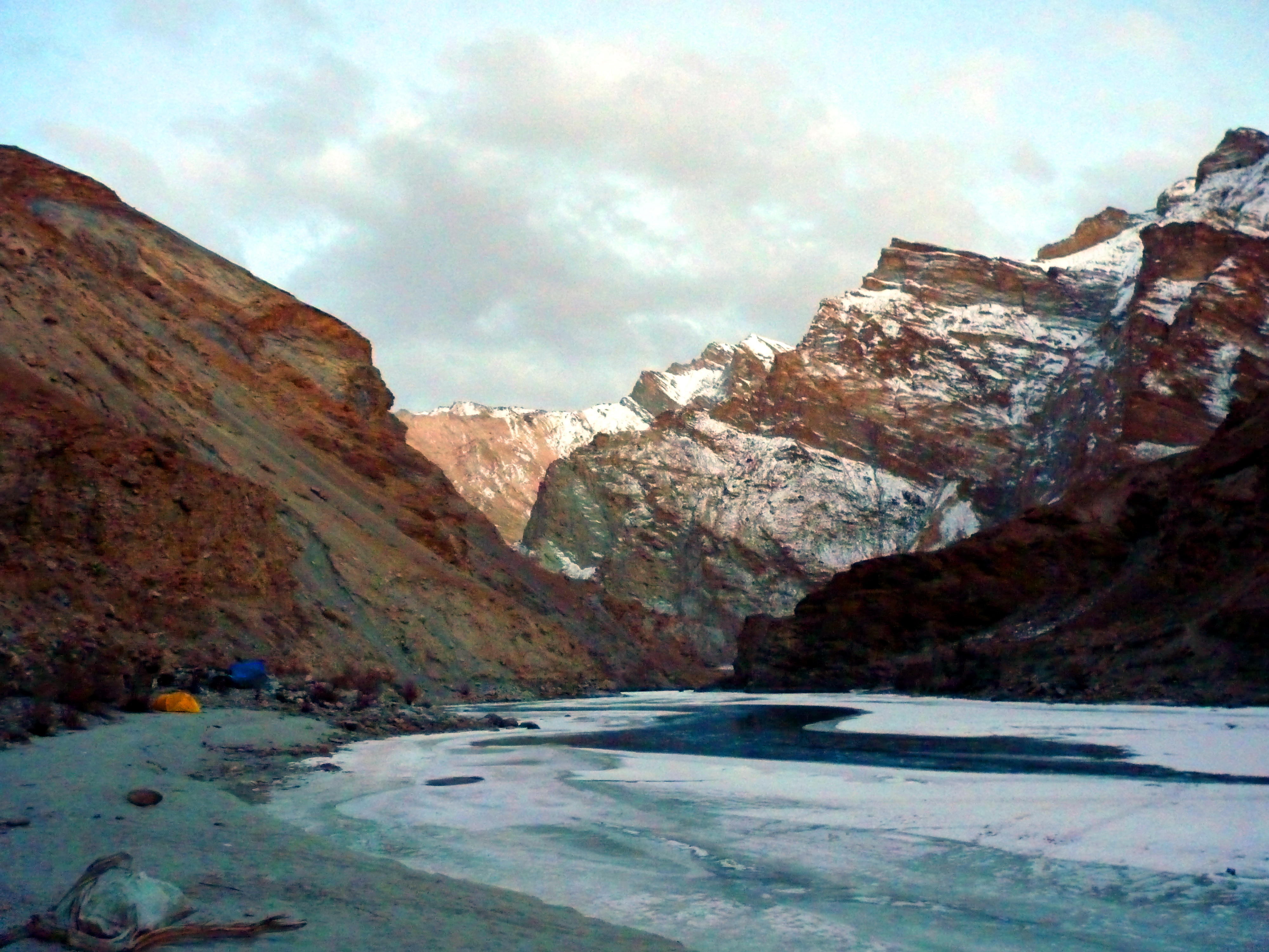 Beautiful clear day in Chadar